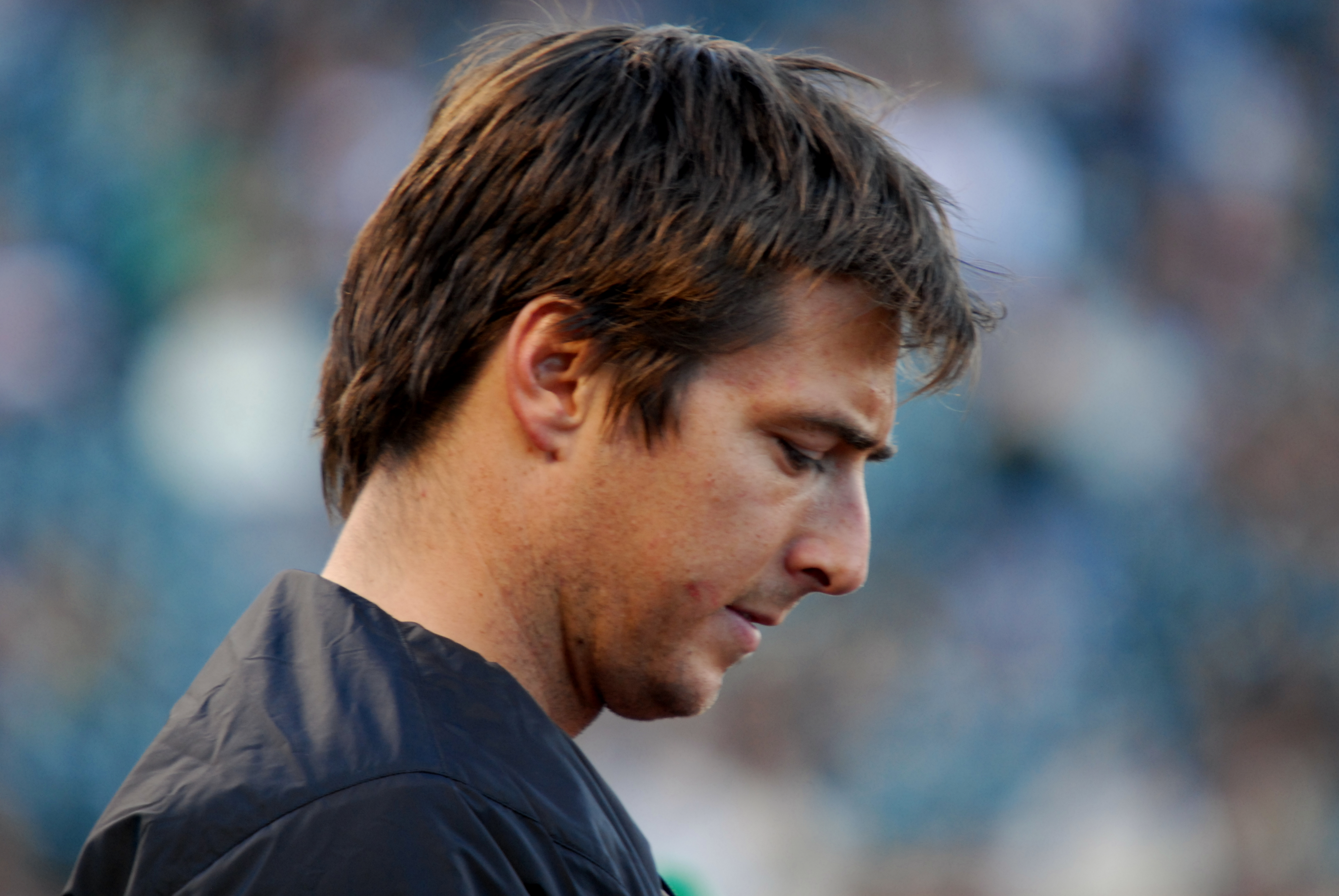 Jonny Moseley at the Ice Air 2006